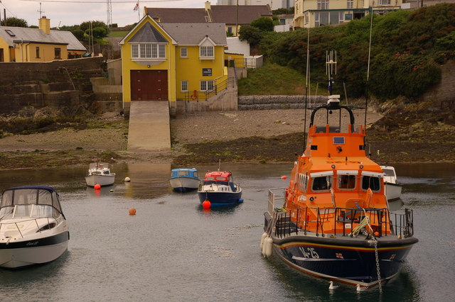 Ballycotton harbour and lifeboat, a small fishery harbour to the east of the entrance to Cork Harbour. The lifeboat station opened in 1858. The present lifeboat house dates from 2002. The Trent class boat “Austin Lidbury” is kept at moorings in the harbour.